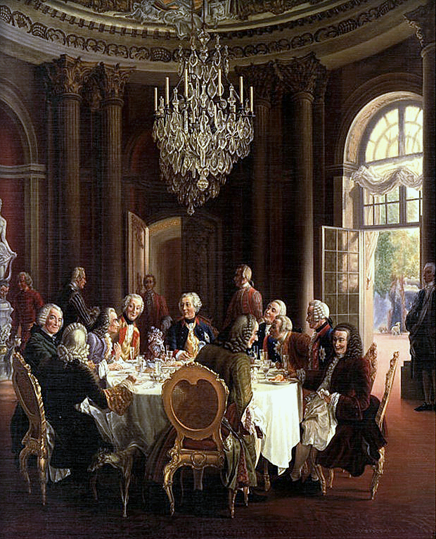 Third from the left, in the purple coat, is Voltaire; next to him in the red uniform Christoph Ludwig von Stille, then the king. The other guests are Giacomo Casanova, Jean-Baptiste Boyer d'Argens, La Mettrie, the Keiths (James Francis Edward Keith & George Keith, 10th Earl Marischal), Friedrich Rudolf von Rothenburg, and Francesco Algarotti.[1]